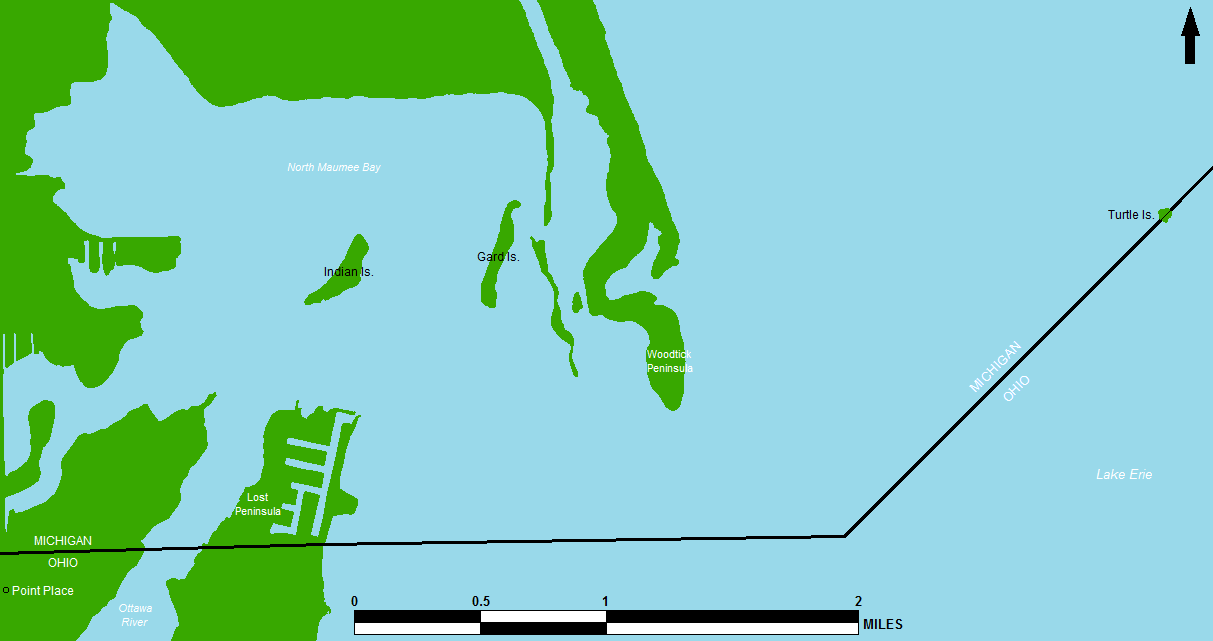 Shows the location of both Indian and Gard islands (Michigan) in Lake Erie's Maumee Bay.